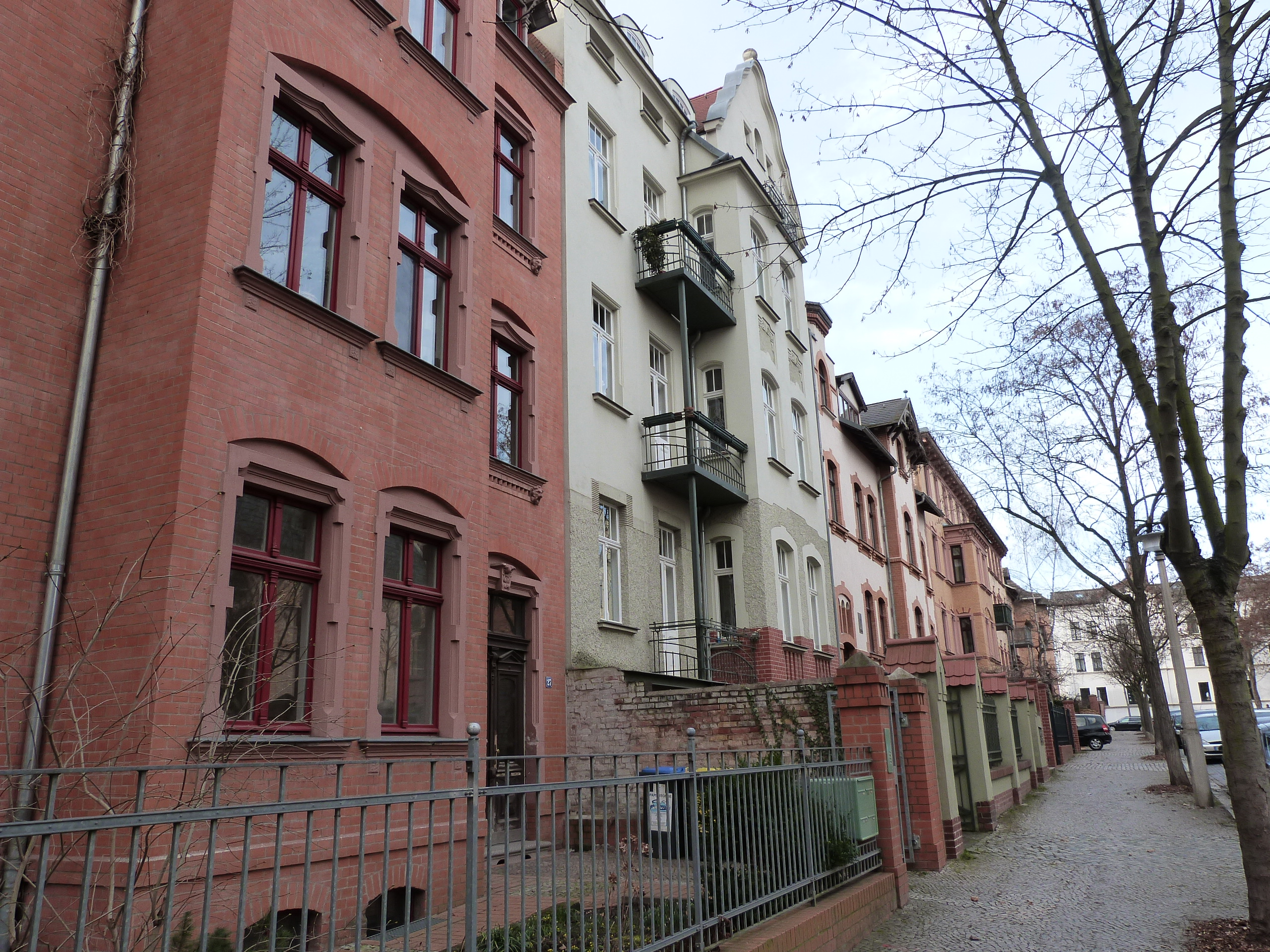 Street Richard-Wagner-Straße No. 27 ff. in Halle (Saale)